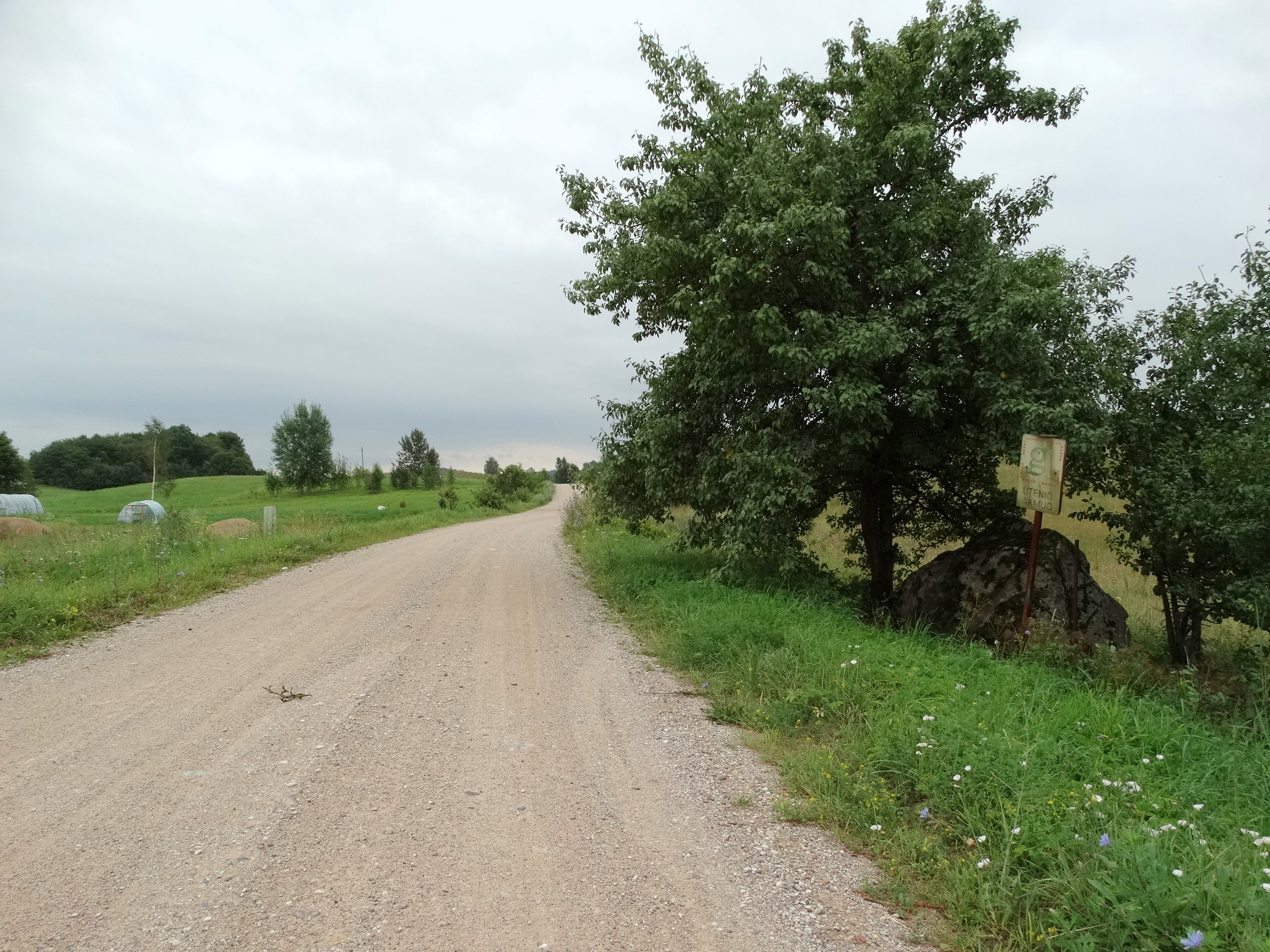 Utenis Stone, Utena district, Lithuania